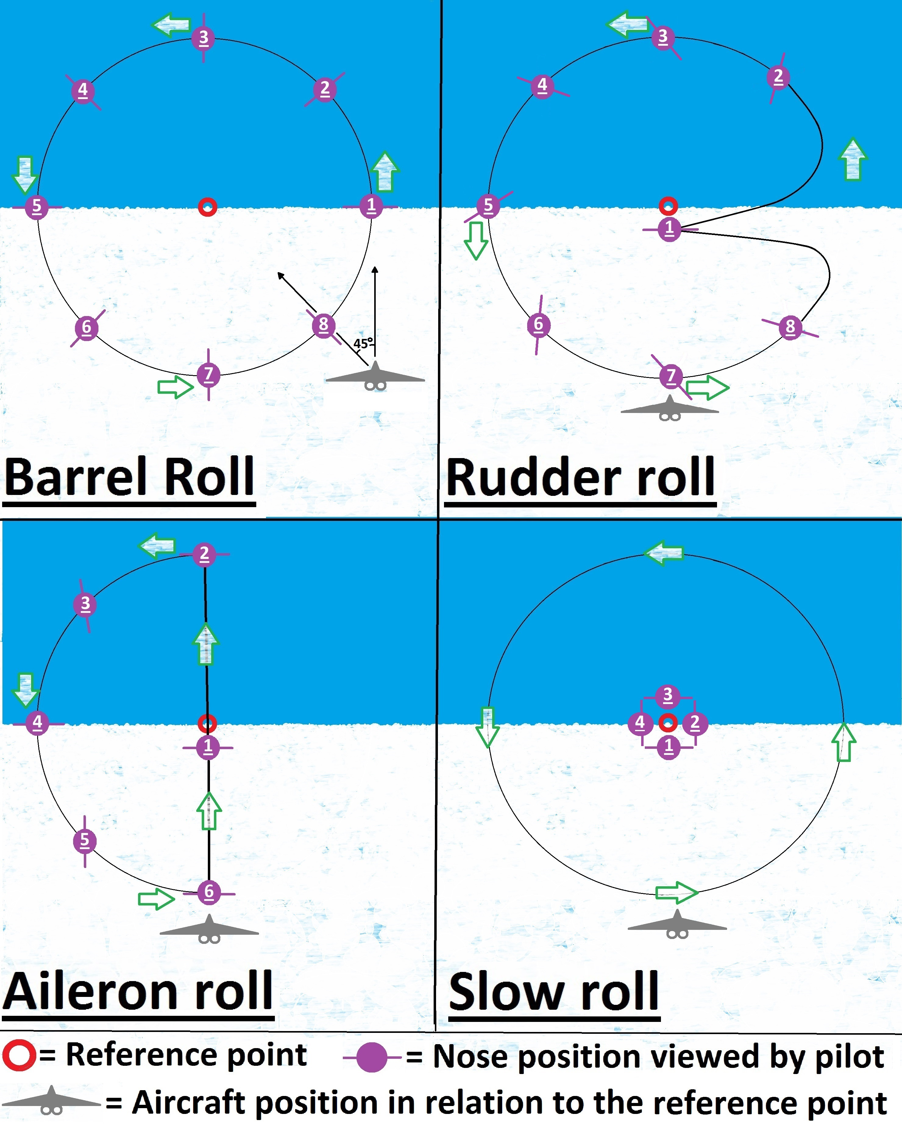 Diagram of four different rolls as viewed from the pilot's perspective. The aircraft symbol shows where the plane is in relation to the reference point on the horizon. The purple dots represent the nose position of the plane at a given time, as viewed by the pilot, in relation to the reference point, also as viewed by the pilot.